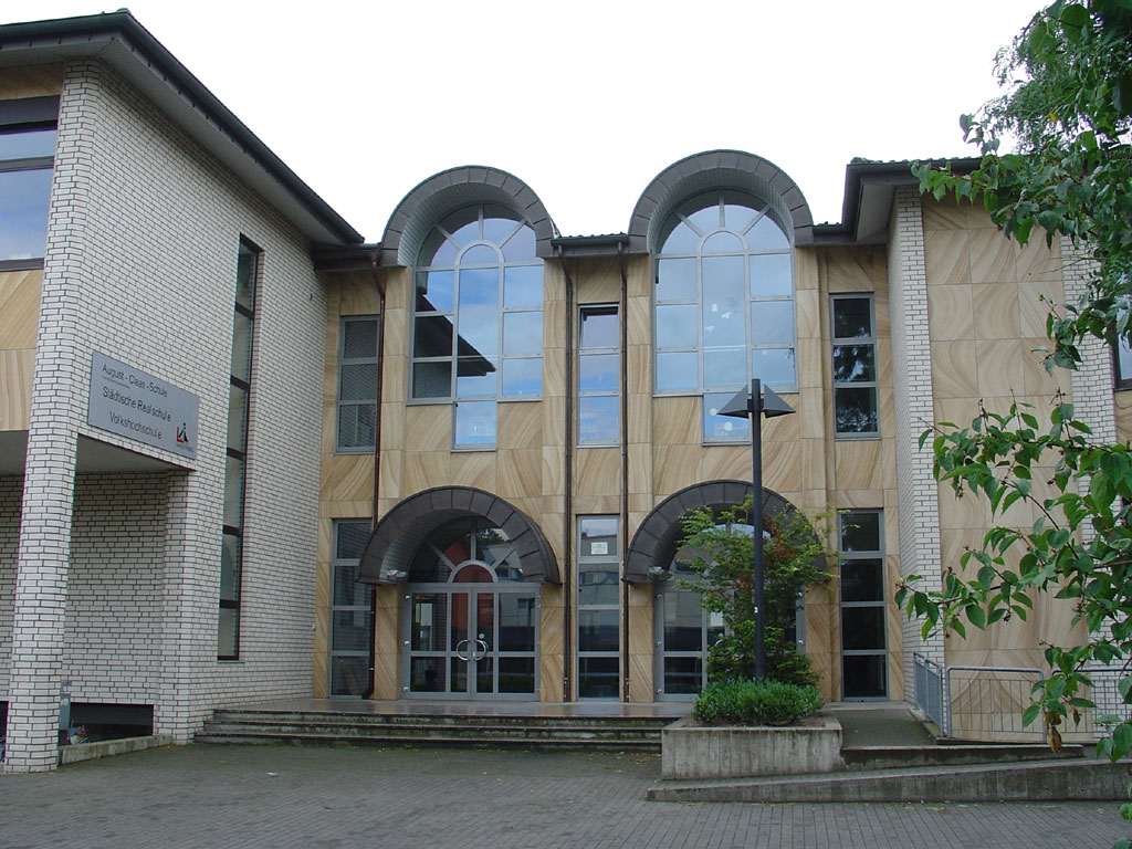 Mainentrance to the middle schools in Harsewinkel